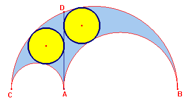 The twin circles of Archimedes